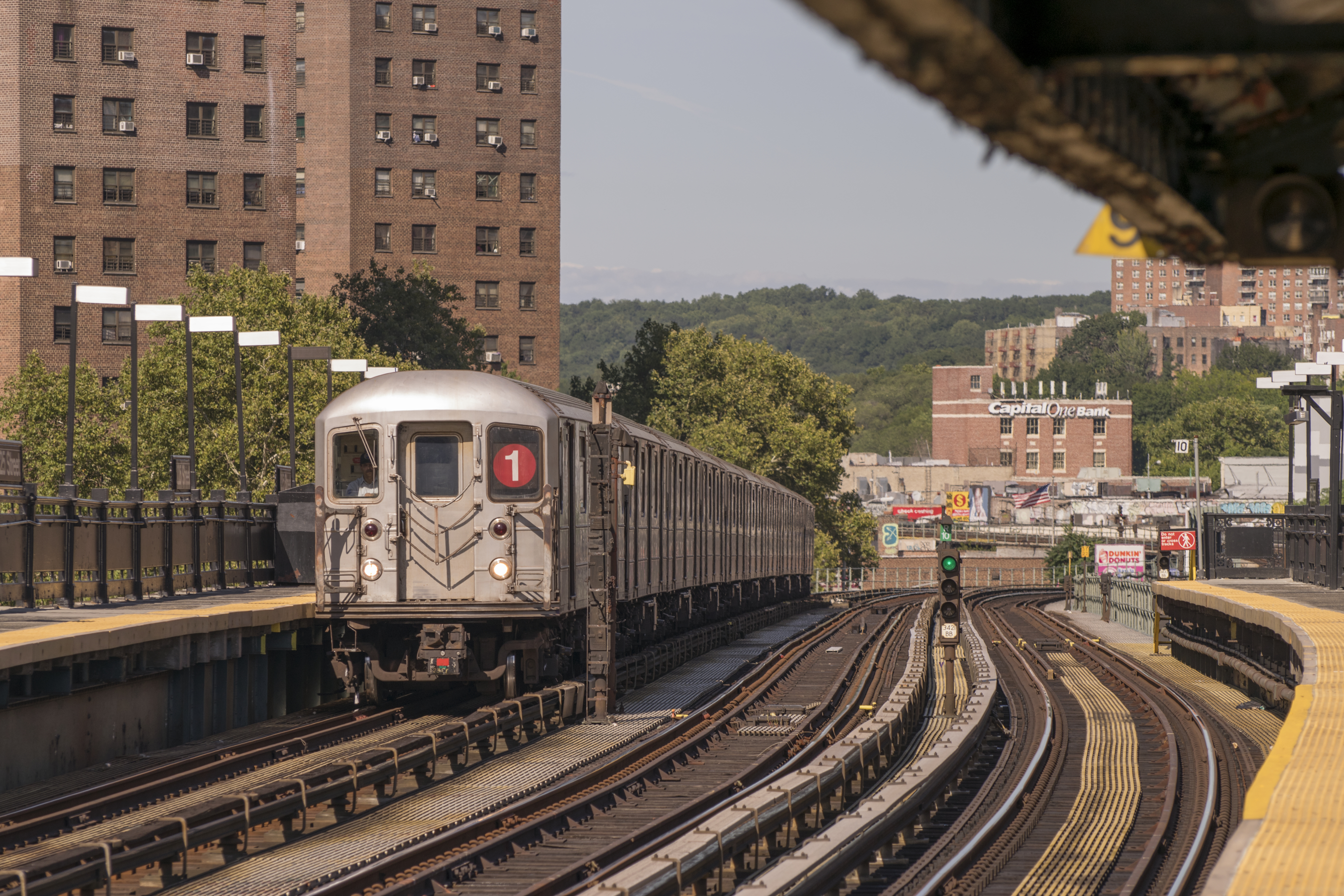 Bombardier R62A Subway Car #2351 enters Marble Hill-225th Street en route to South Ferry in Lower Manhattan.